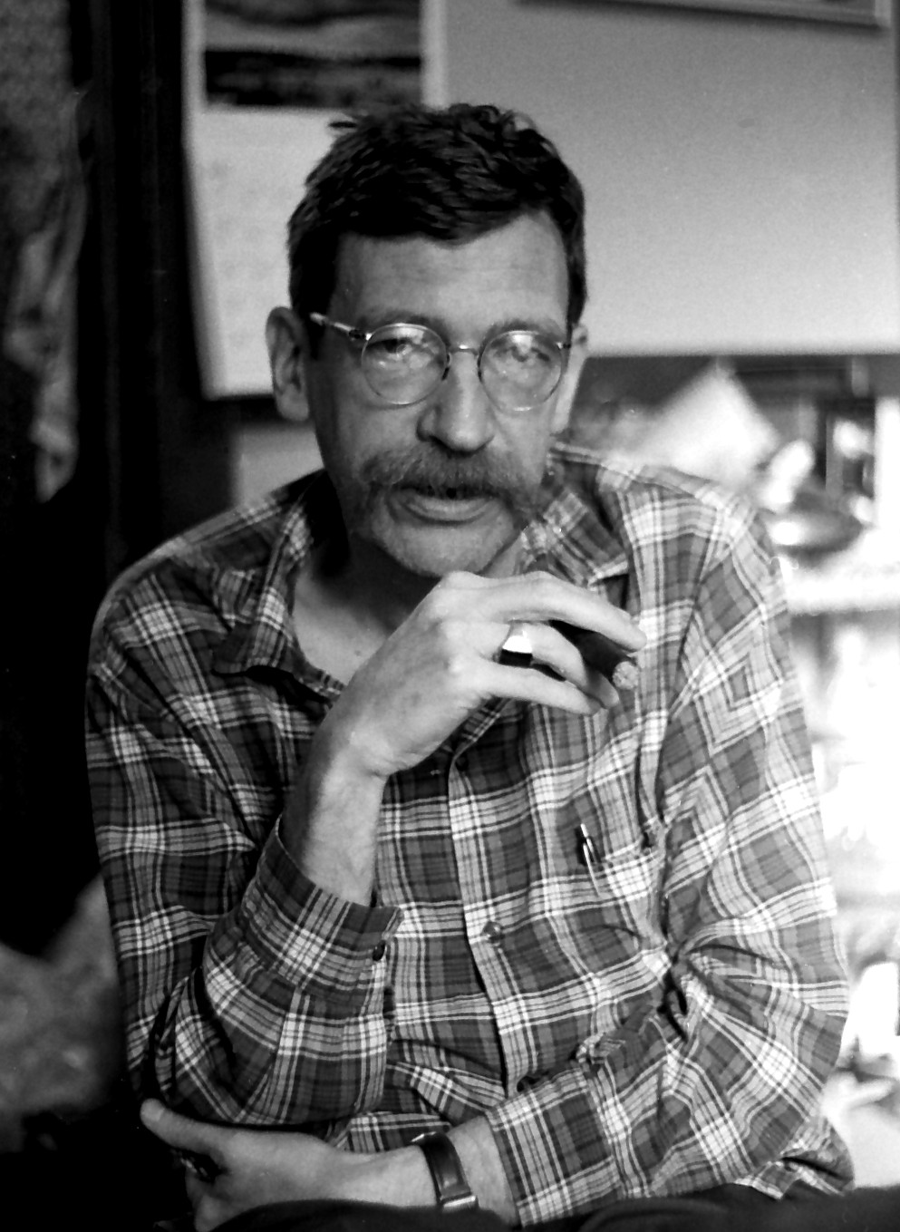 Composer Barney Childs at the kitchen of his friend Canadian poet John Newlove in Toronto.